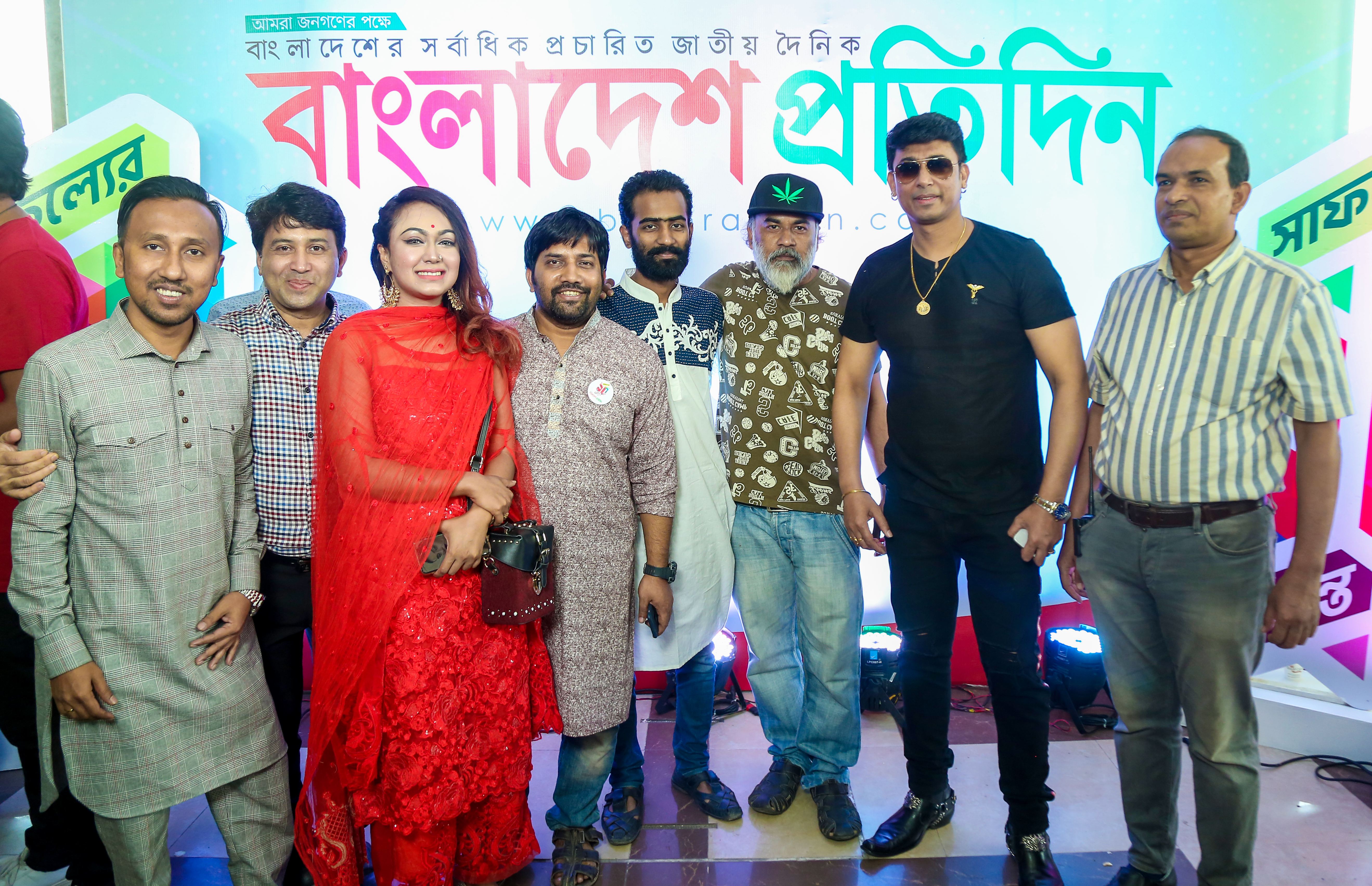 Film director Bulbul Bishwas, Borhan Khan, Actor Zayed Khan, Bipasha Kabir, Mahbub, Harun Rashid and others at 10 years celebration of Bangladesh Pratidin newspaper.